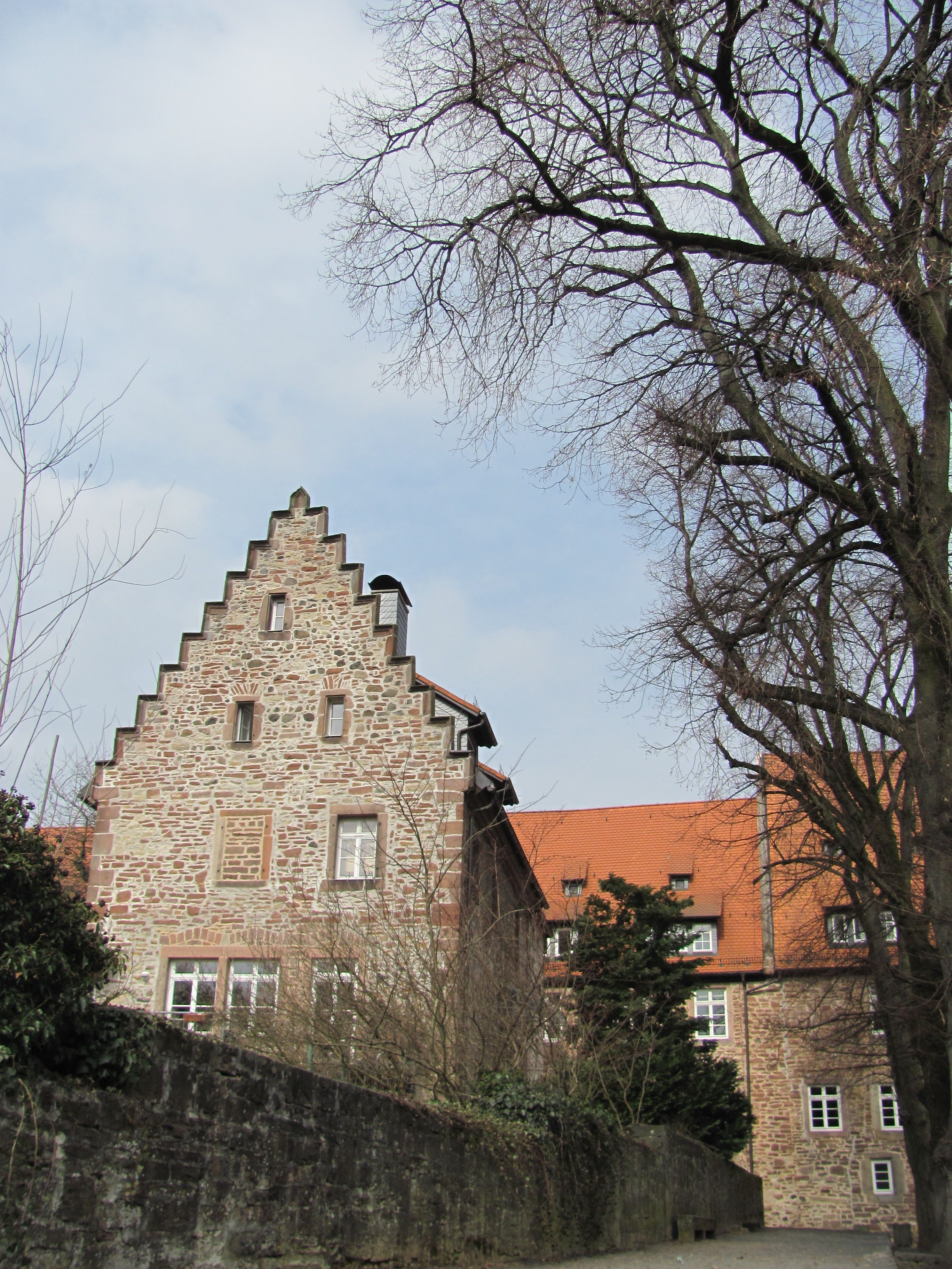 Schlüchtern Monastery, infirmary